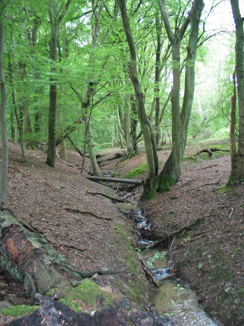 Cuffley Brook, Northaw Great Wood Cuffley Brook flows West to East across the northern part of Northaw Great Wood. Here a footbridge connects the Great Wood to Broombarns Wood plantation. The northern bank of the brook forms the boundary between Northaw and Hatfield parishes.